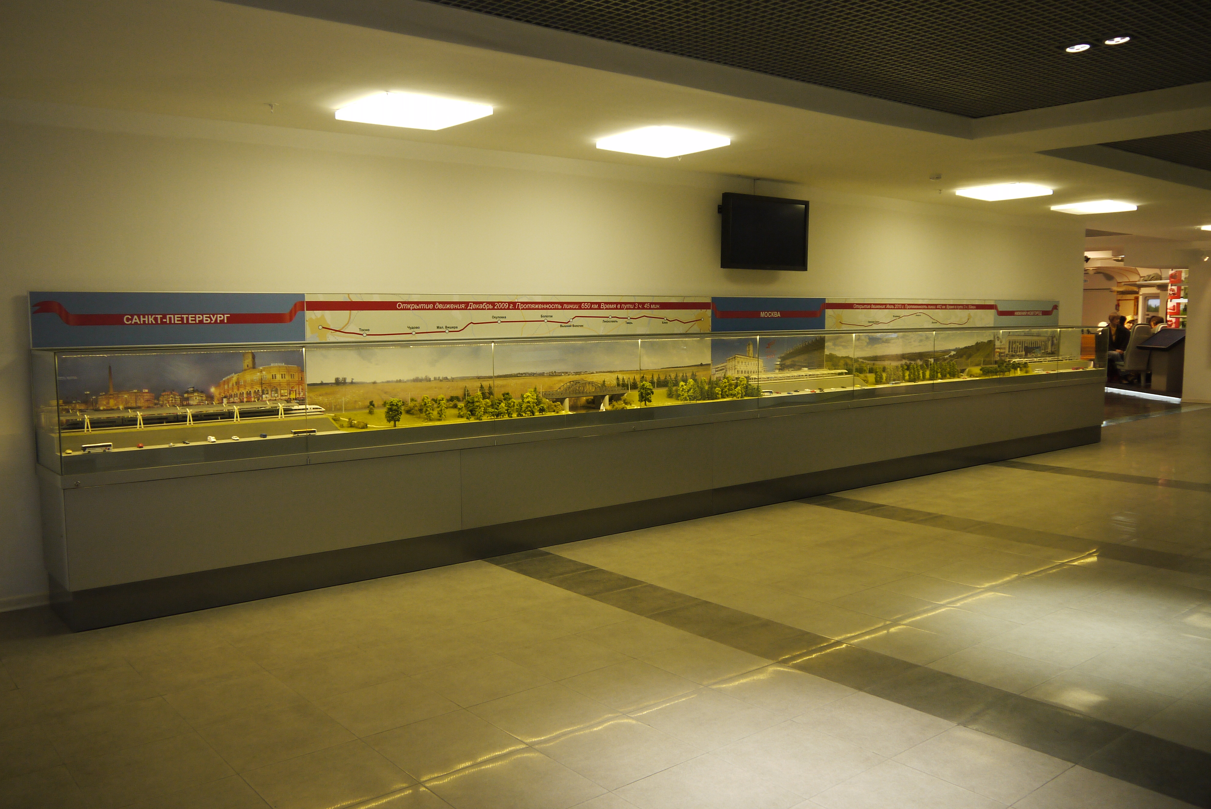 OO Gauge Model railway of the Russian High Speed Sapsan railway from St.Petersburg to Moscow, and Moscow to Nizhny Novgorod, in the Museum of the Moscow Railway, Paveletsky Rail Terminal, Moscow